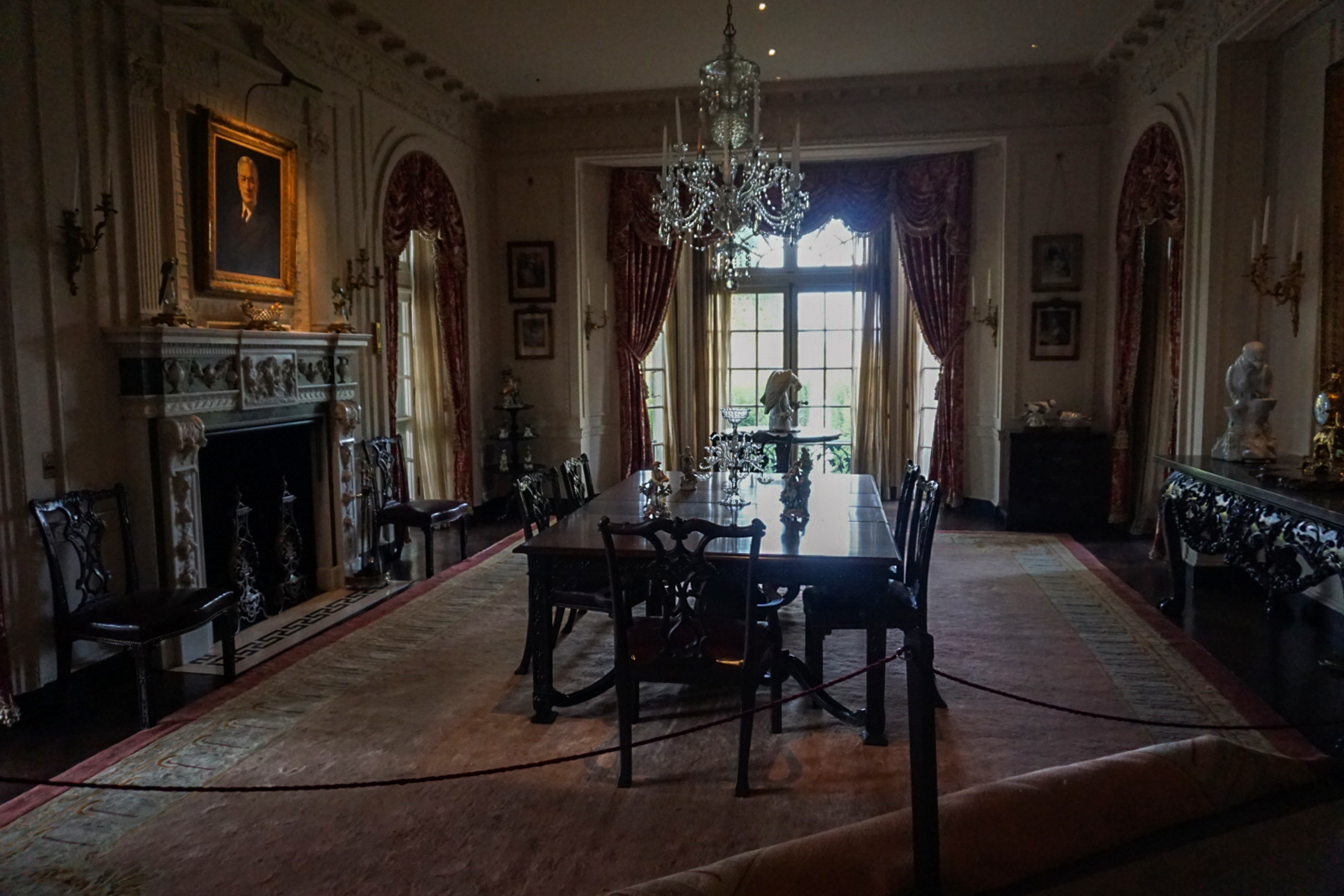 Went back to Kykuit in Mount Pleasant on October 23. I have more photos but it seems the cat already has tons of ok ones.